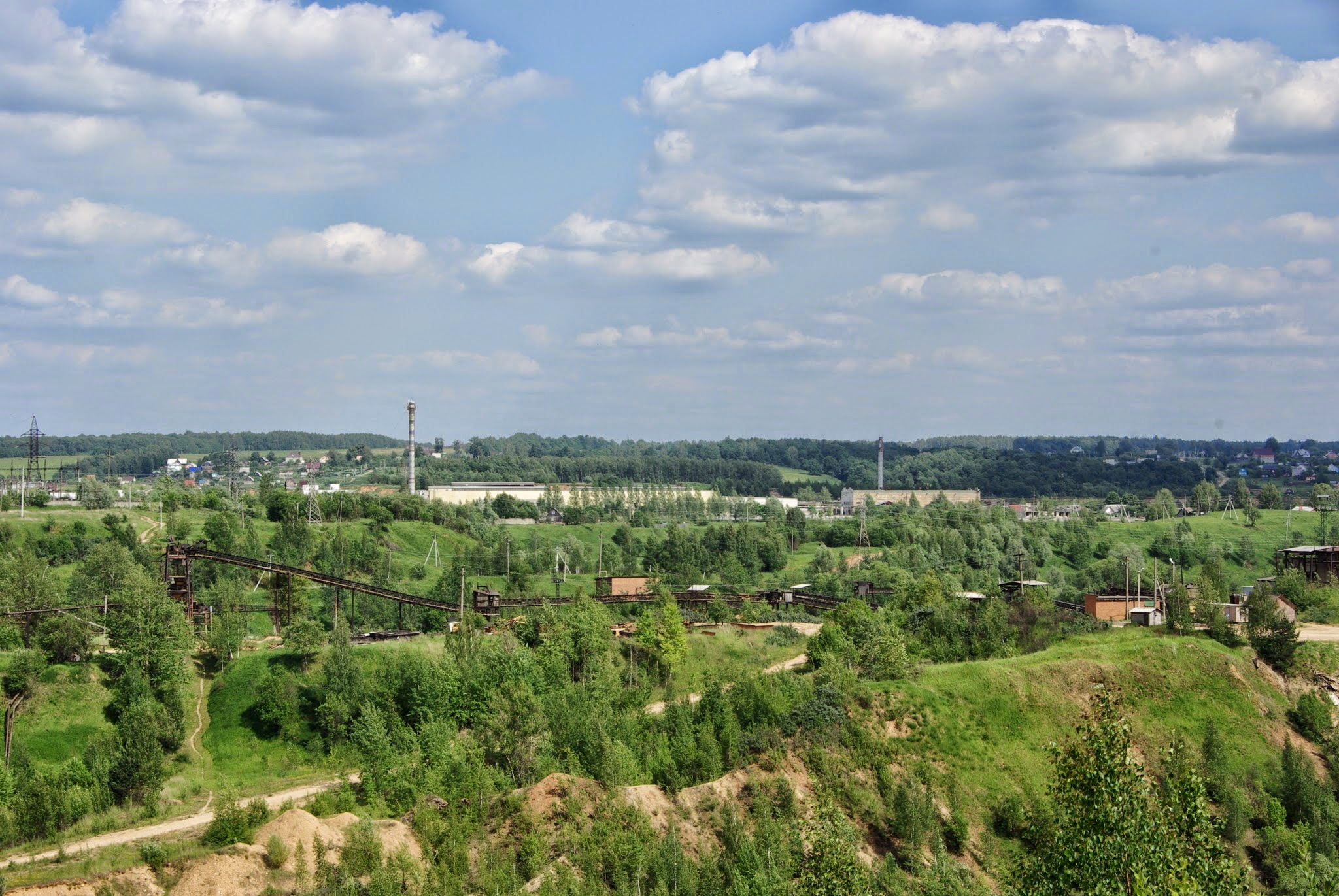 Dmitrov, Moscow Oblast, Russia